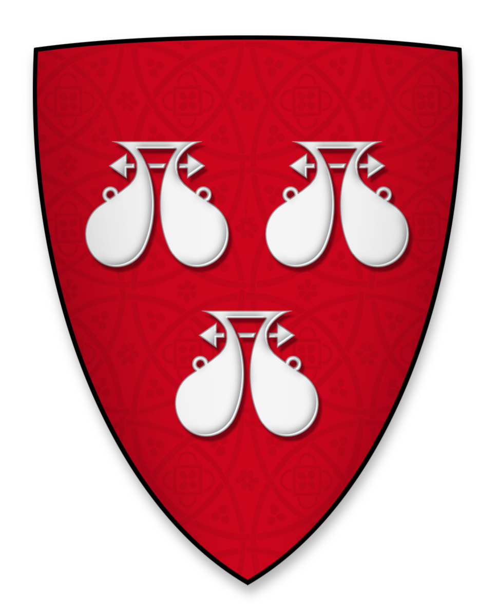 Coat of arms of Robert de Roos, Lord of Hamlake Castle. Blazon: Gules, three water bougets argent.